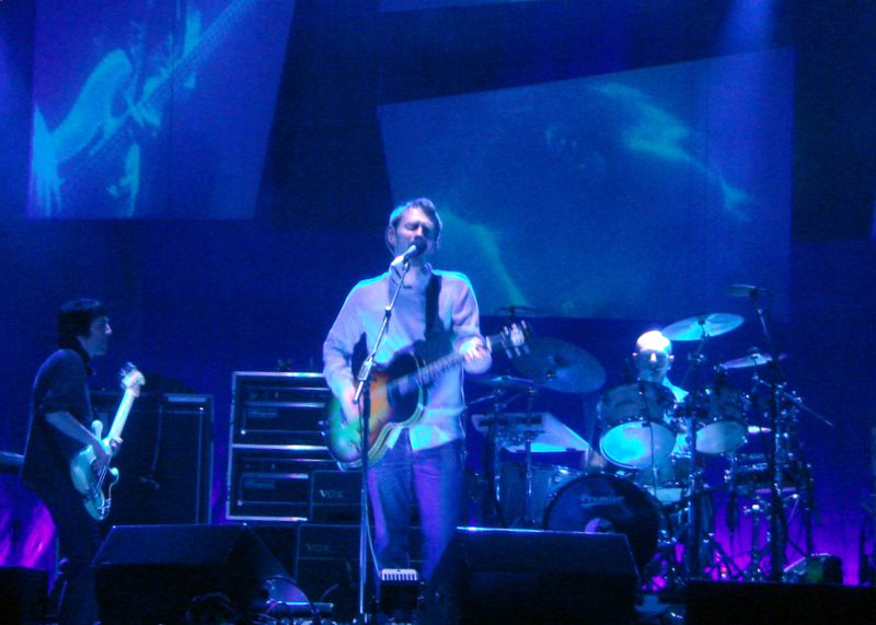 Radiohead live in Berkeley, California on 6/23/2006. On stage (left to right) are Colin Greenwood, Thom Yorke and Phil Selway